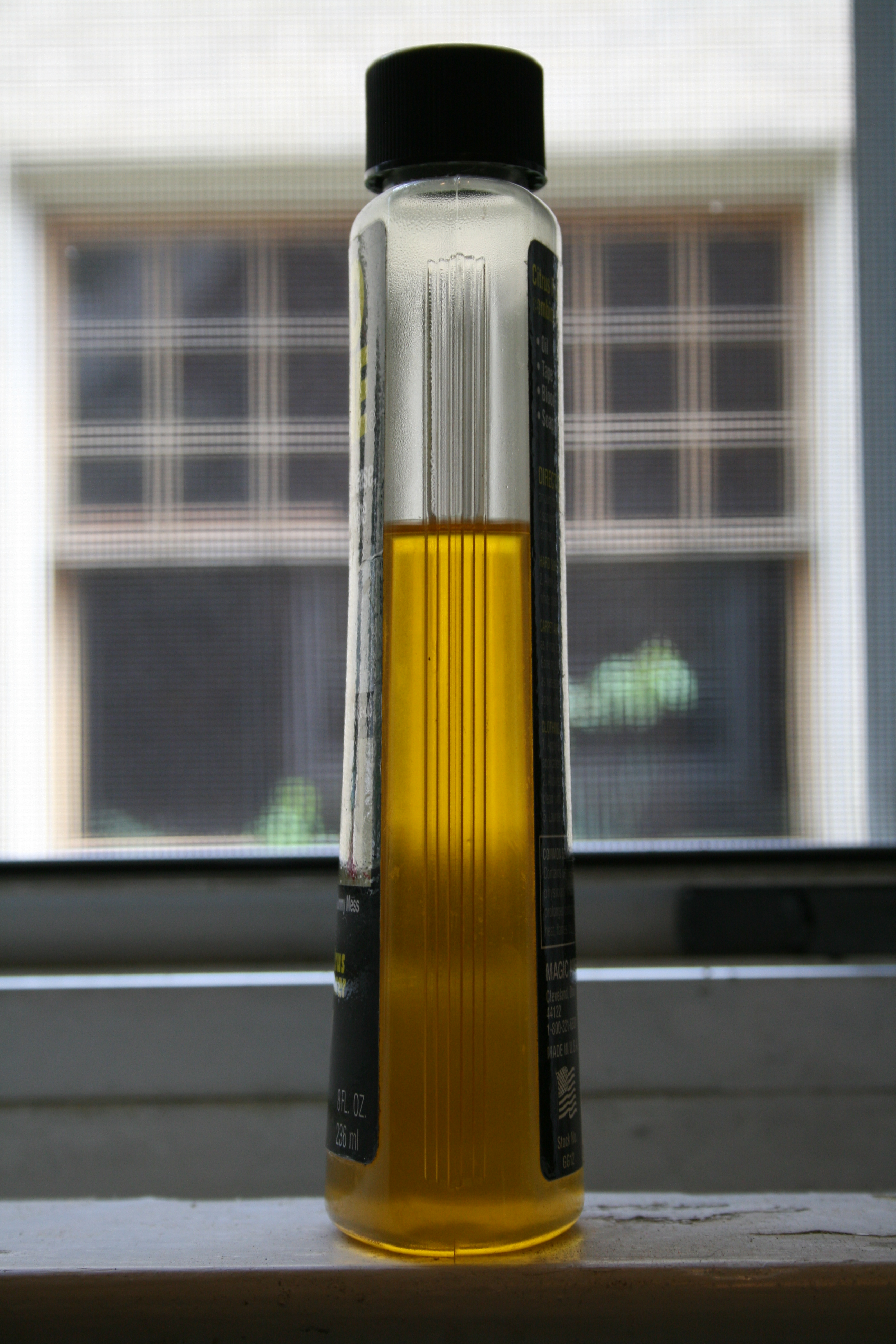 Bottle of Goo Gone solvent on a windowsill (side view).